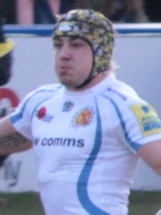 Jack Nowell playing for Exeter Chiefs in 2013